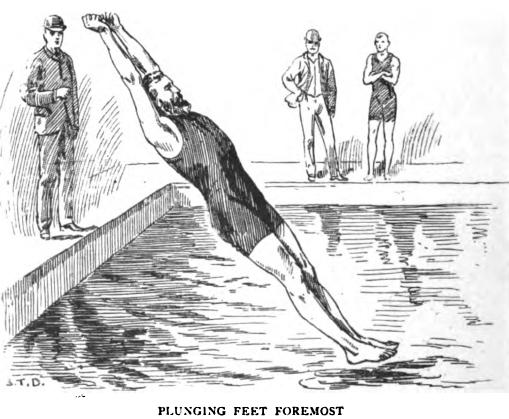 Picture of a swimmer plunging feet first (the plunge for distance was a competitive swimming event in the 19th and early 20th century